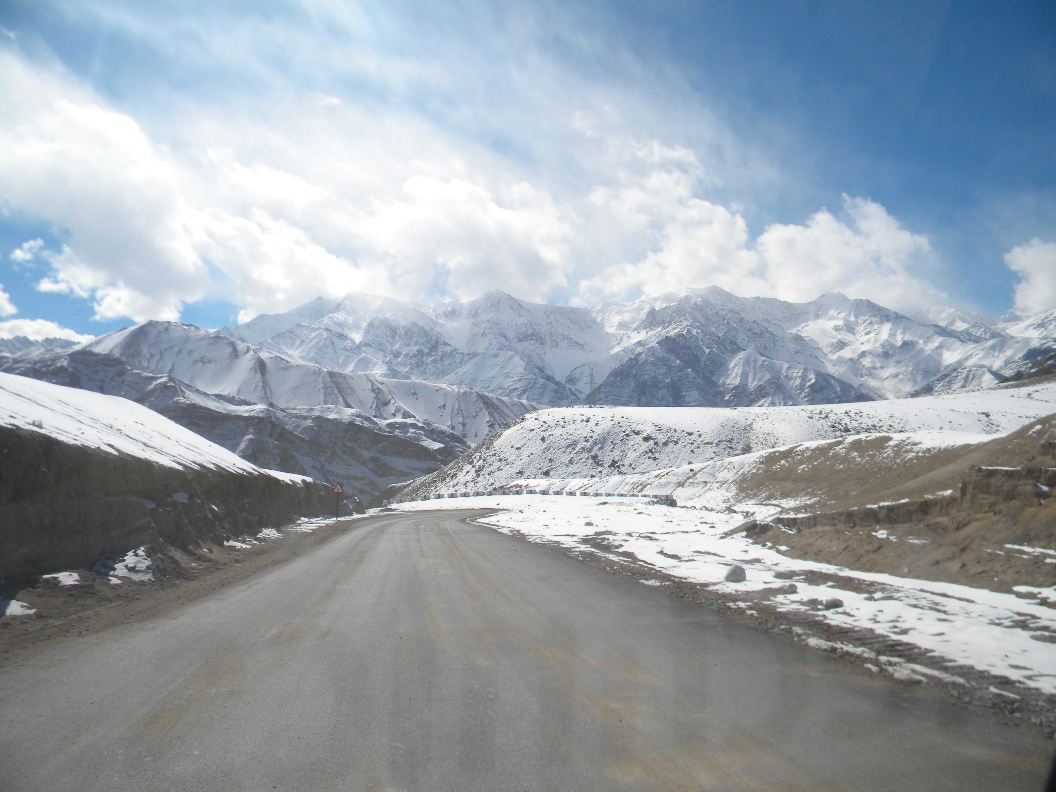 National Highway 1D, India